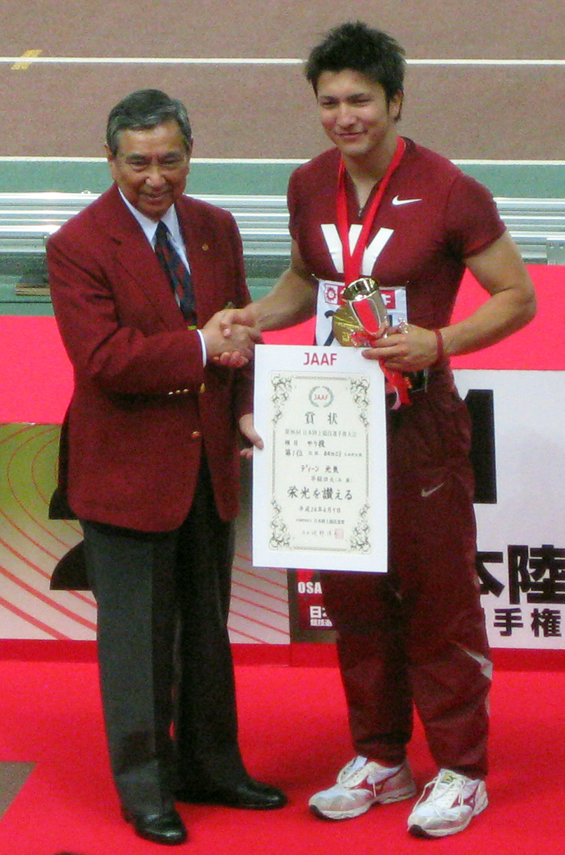 Genki Dean congratulated by Yohei Kono during 2012 Japan Championships in Athletics.